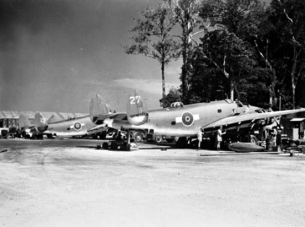 Ground staff personnel of No. 30 Servicing Unit, Royal New Zealand Air Force, overhauling Lockheed PV-1 Ventura patrol bombers on Green Island, 21 December 1944.